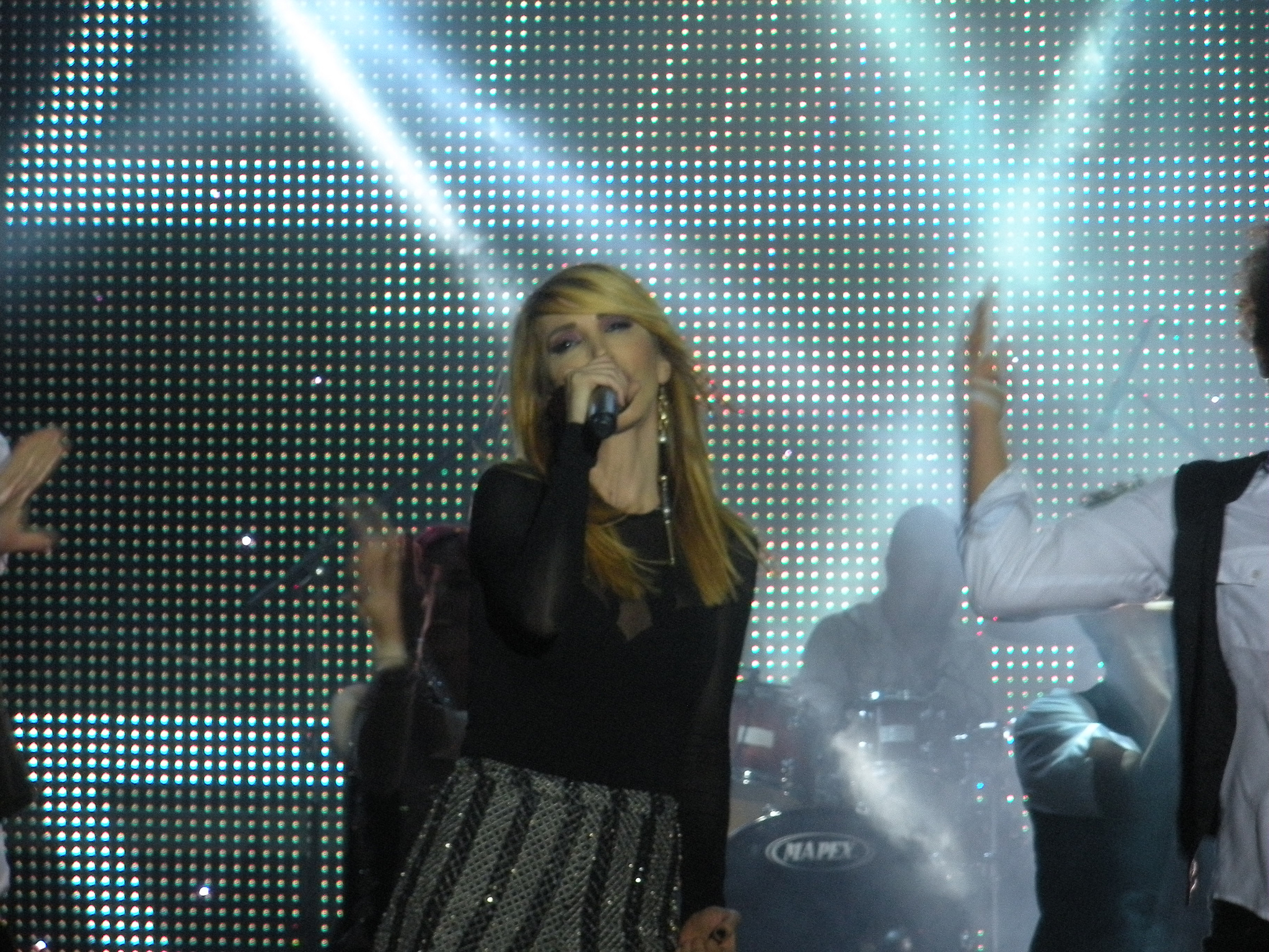 Hande Yener at Çorlu concert.